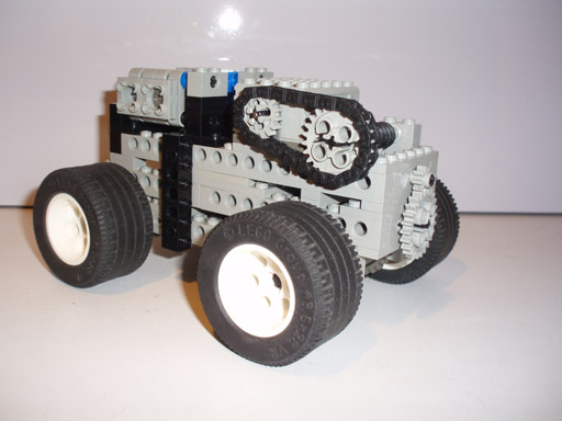 This is an example of a Lego Technics construction with the old parts that have studs.